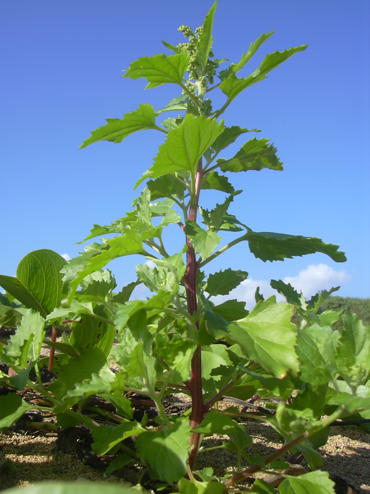 Chenopodium murale (habit). Location: Maui, Kanaha Beach